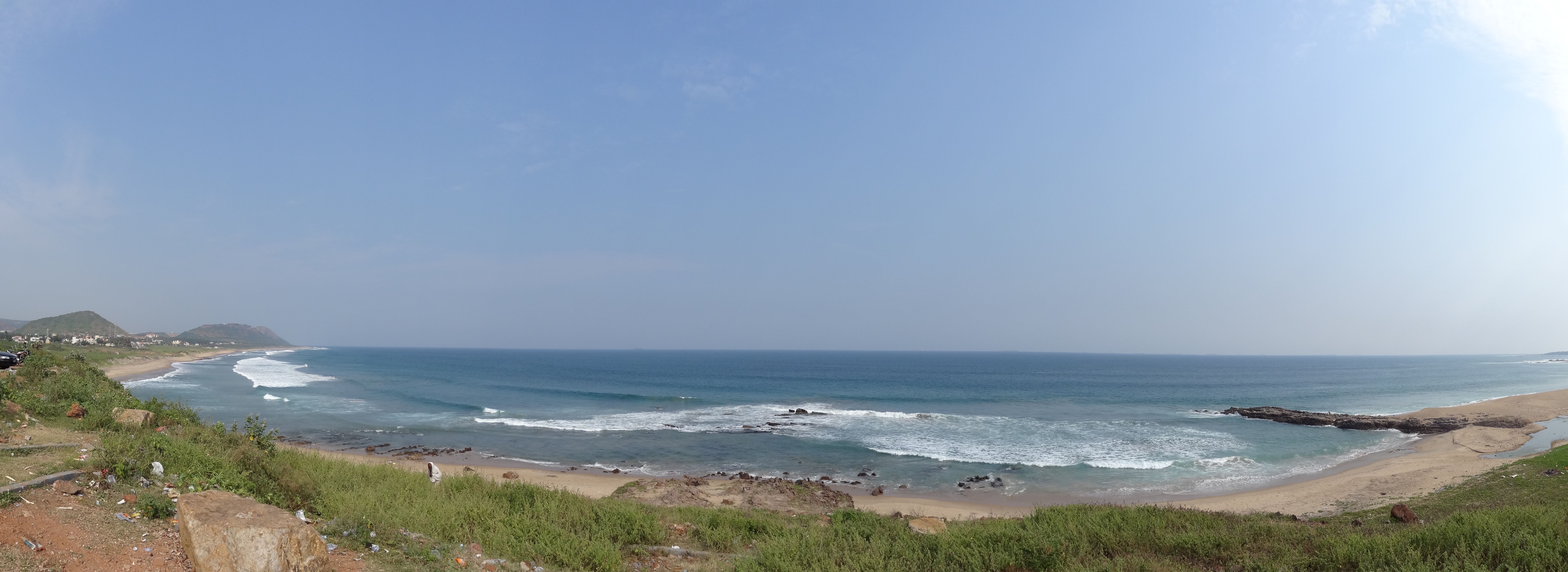 View of the Bay of Bengal, near Visakhapatnam, Andhra Pradesh